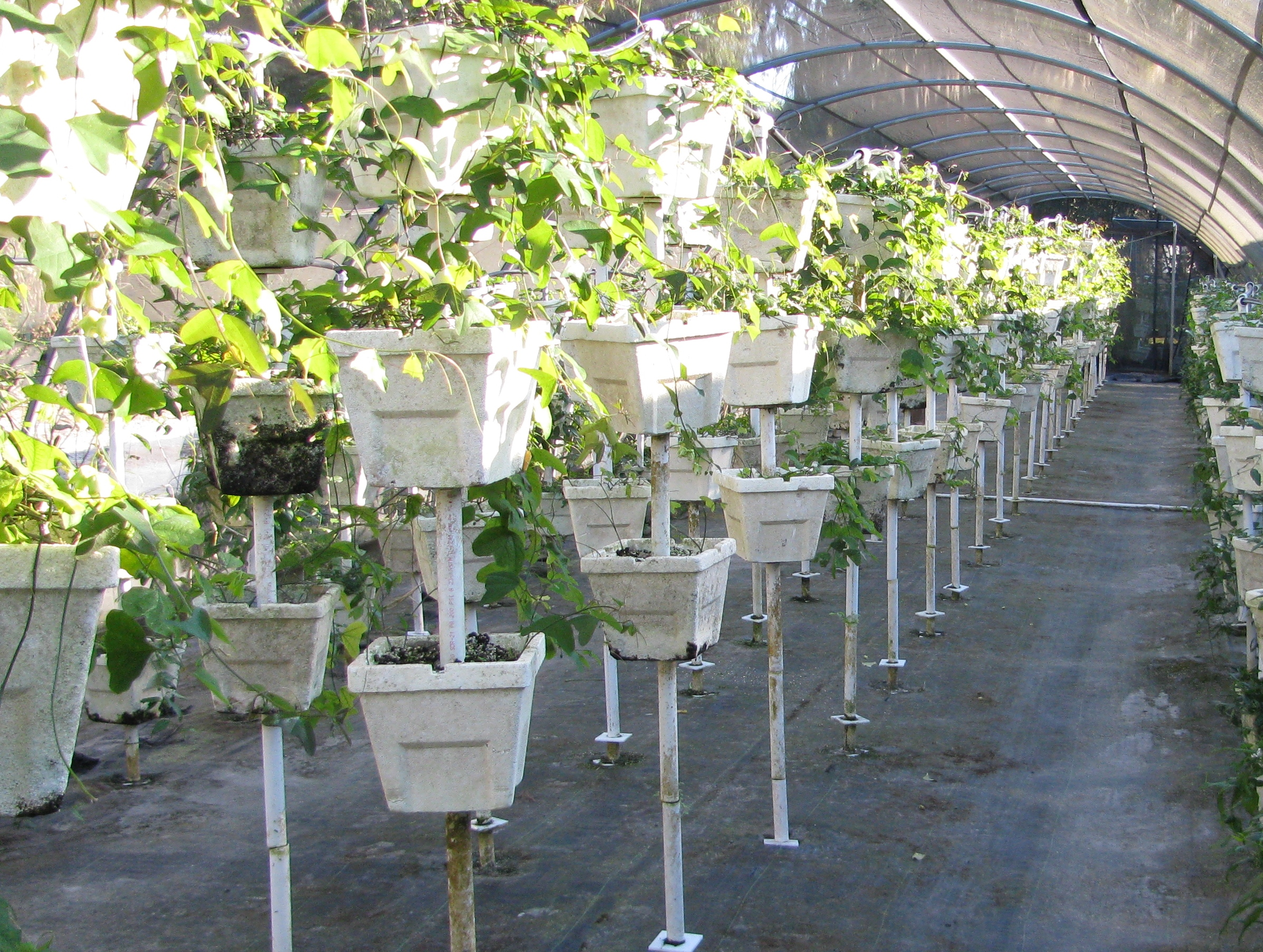 larval food plants grown for captive butterfly breeding